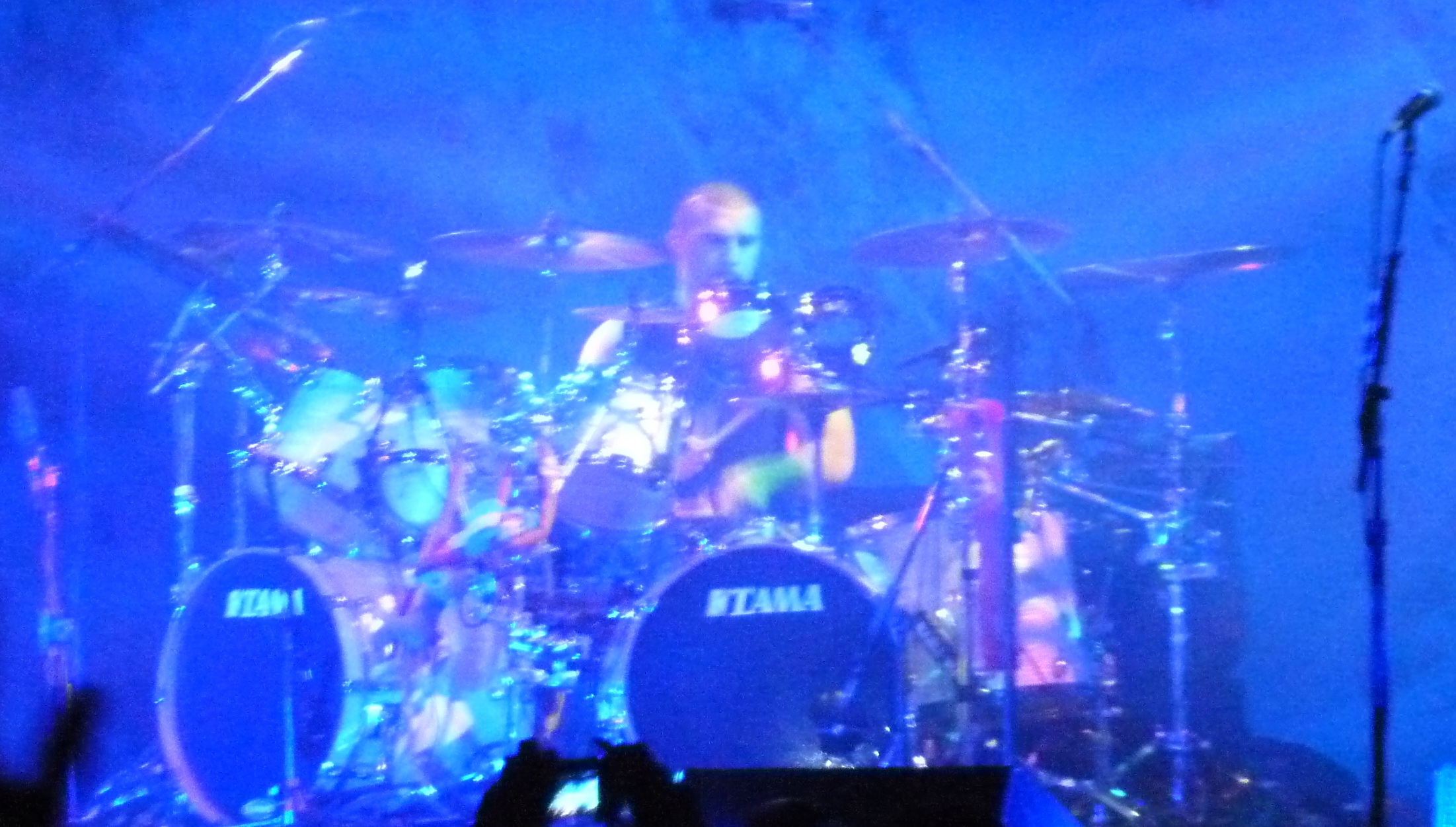 John Dolmayan (with System of a Down) in Chile on October 7, 2011.